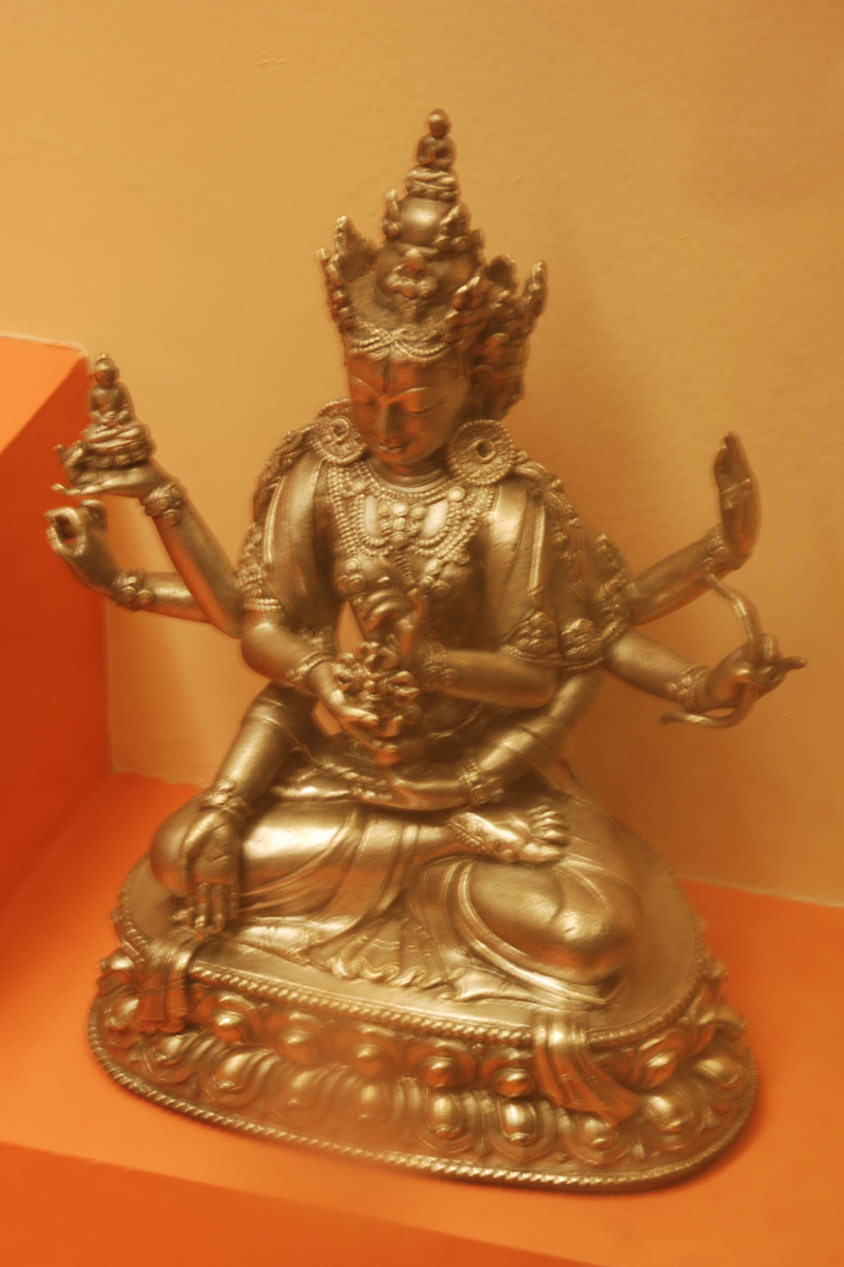 The Victorious Goddess with the Ushnisha, a crownlike chgnon symbolizing the inconceivable power of enlightenment. American Museum of Natural History